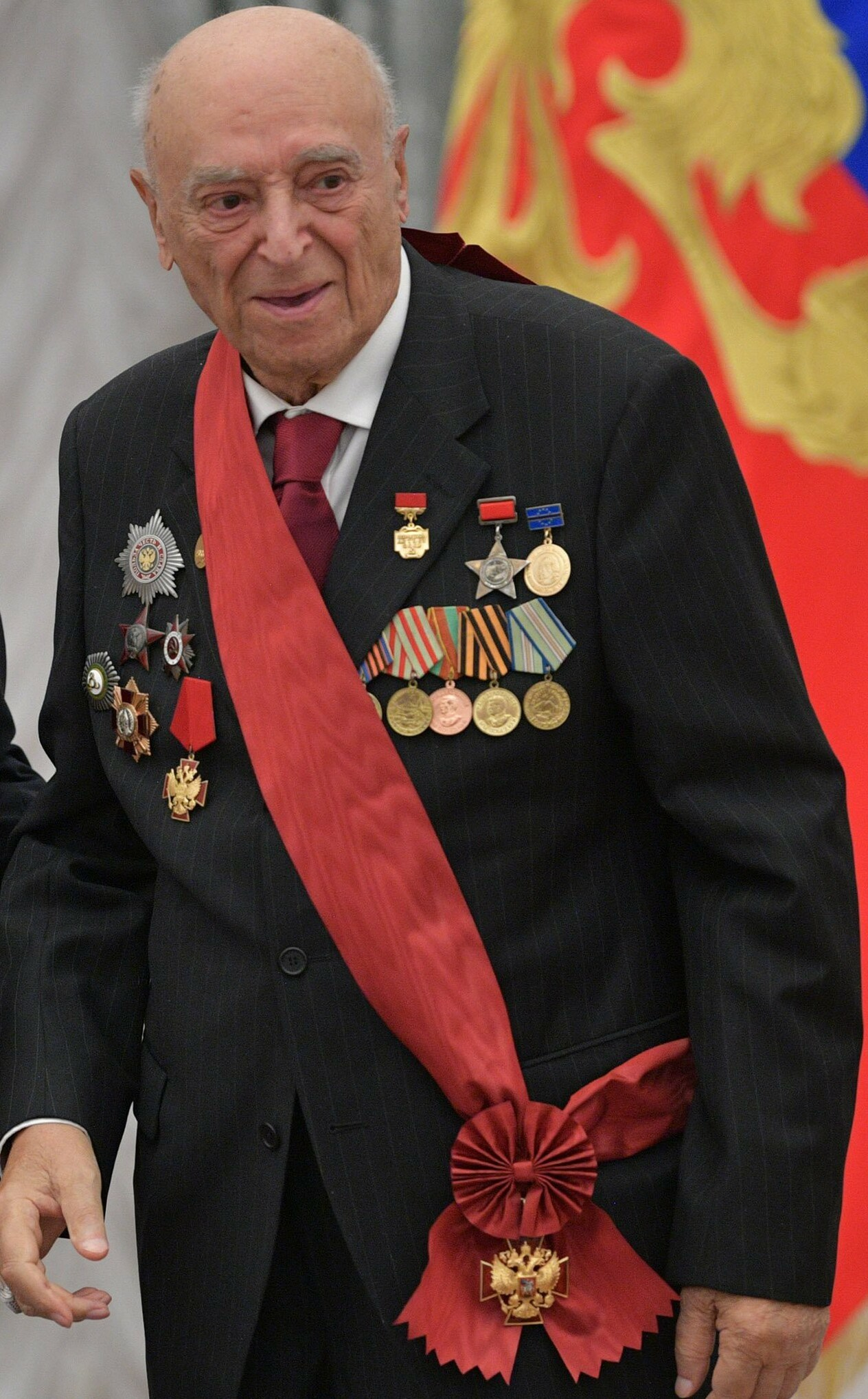 Vladimir Putin and actor Vladimir Etush at award ceremonies 27 Jun 2018, Kremlin, Moscow.